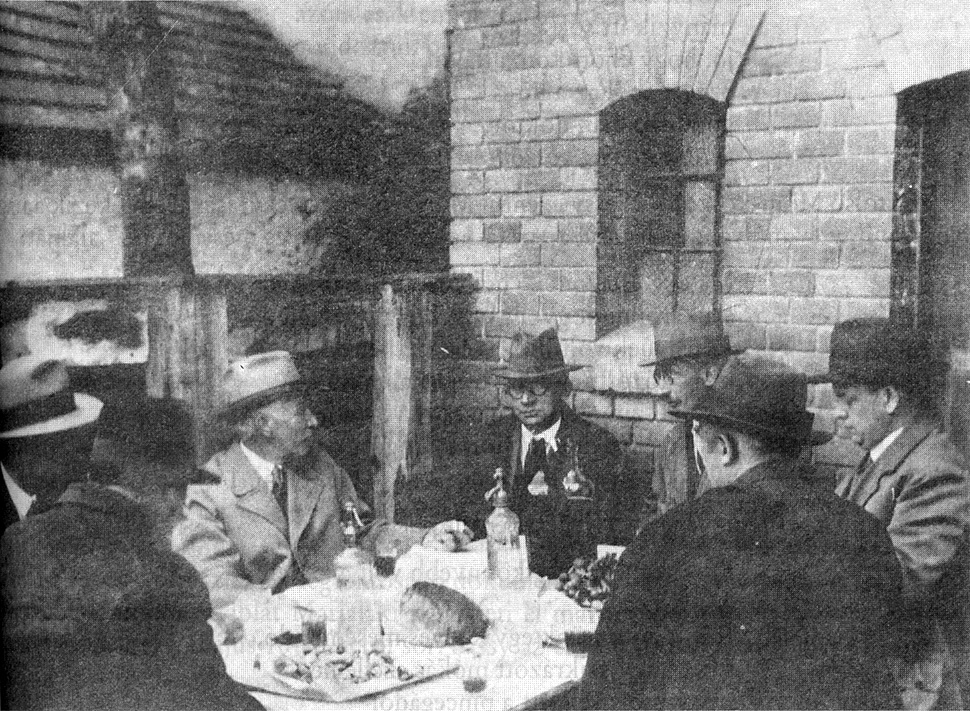 Ferenc Móra in the Marjalaky cellar, Avas, Miskolc, Hungary, 1933